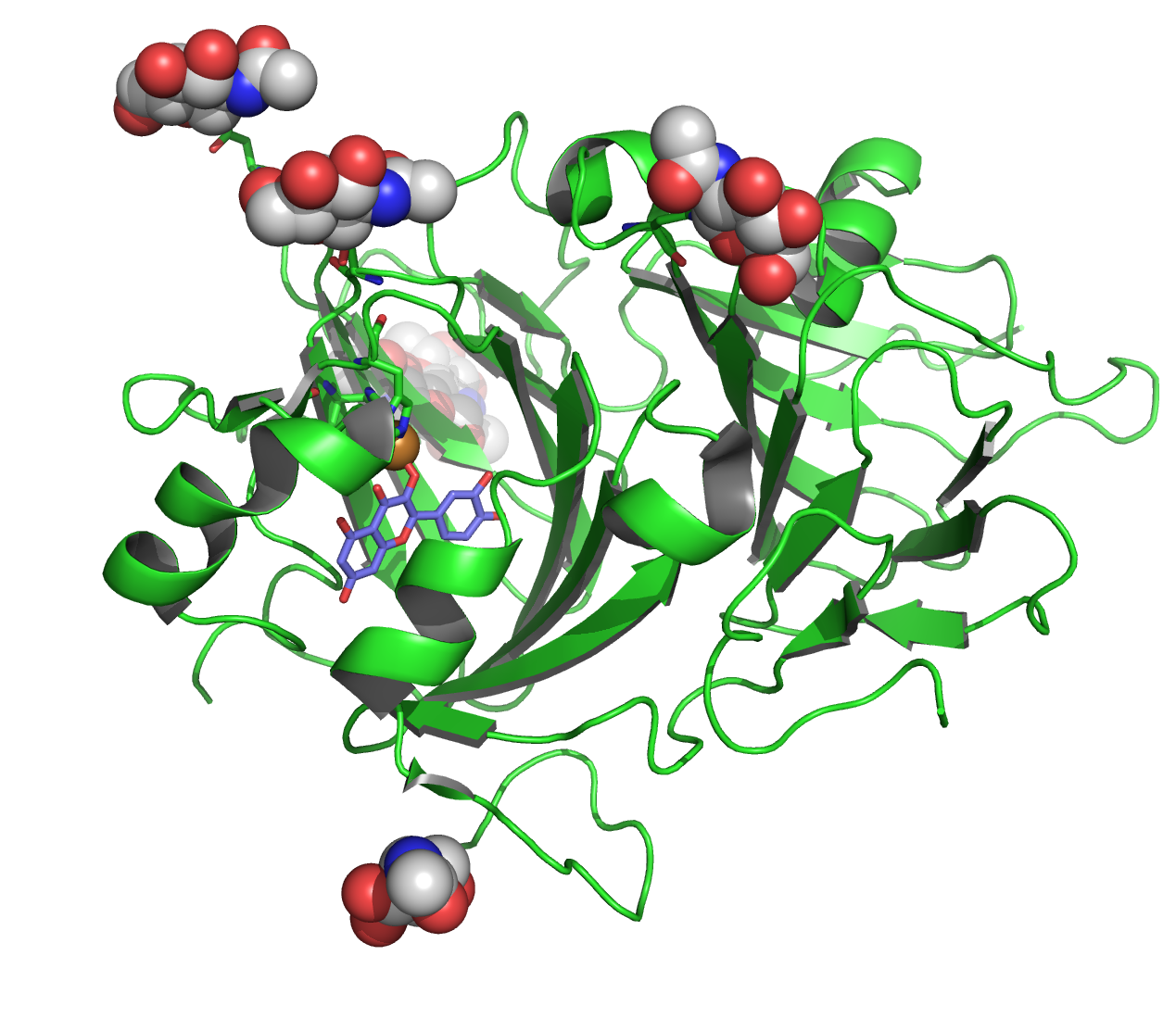 CRYSTAL STRUCTURE OF QUERCETIN 2,3-DIOXYGENASE ANAEROBICALLY COMPLEXED WITH THE SUBSTRATE QUERCETIN from 1H1I